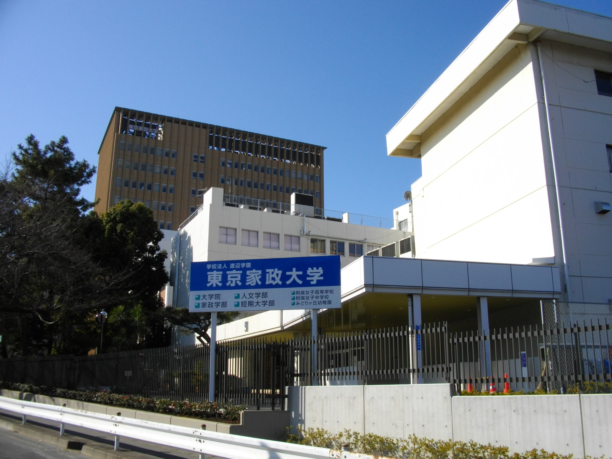 Tokyo Kasei University